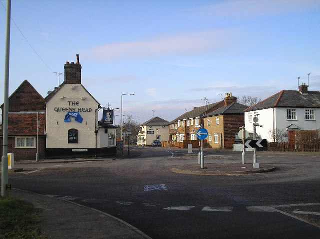 Public houses in Colney Heath. Photographed from the junction of Coursers Road, High Street, Roestock Lane and Tollgate Road. Viewed looking north-west along the High Street. The Queens Head is on the junction, and The Cock, is a little further along the High Street.